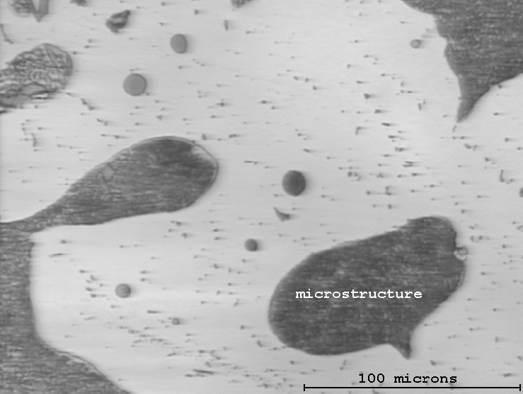 An Aluminium-Silicon sample prepared for 45 minutes at 580 degrees Celsius.